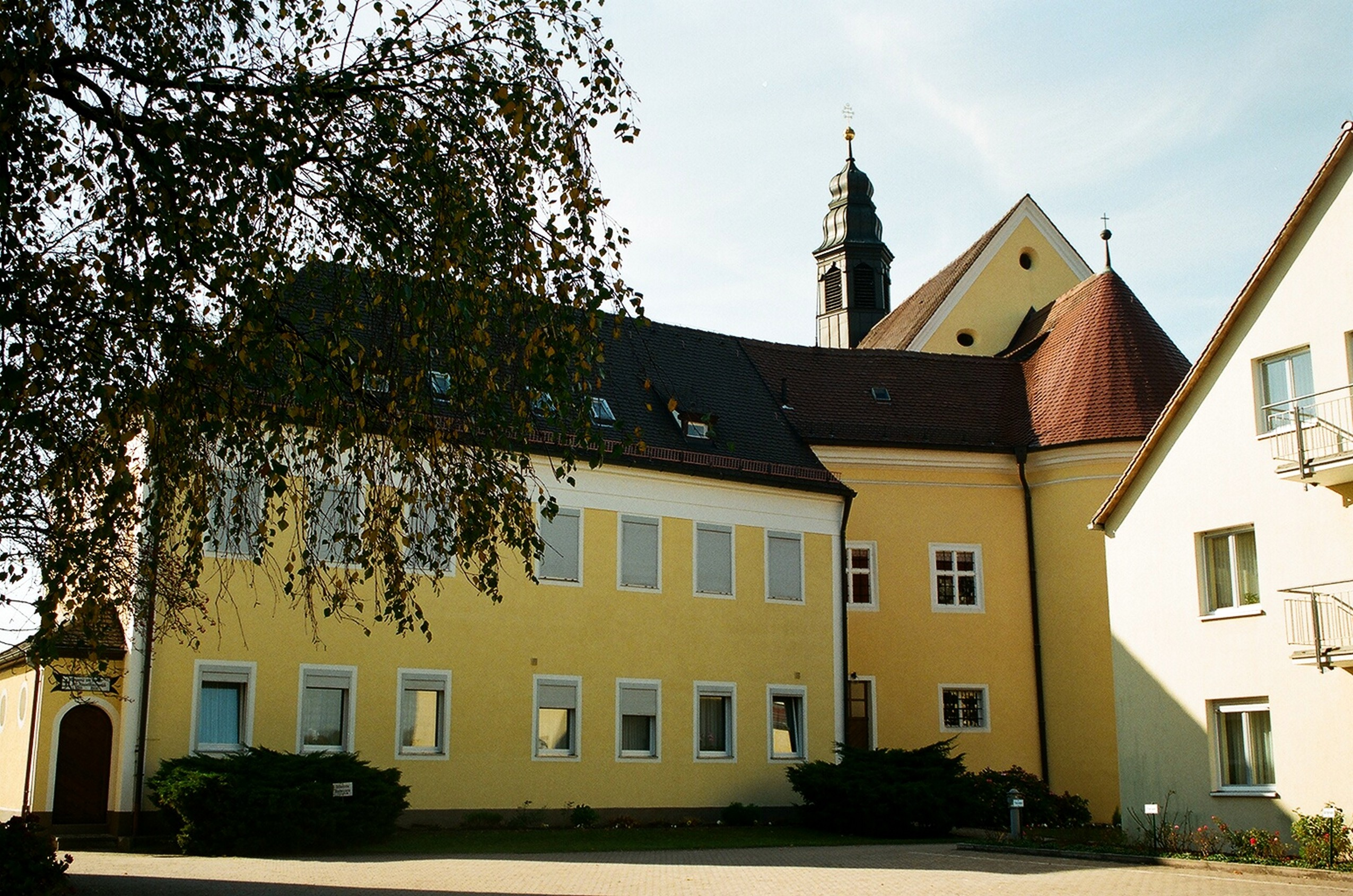 Abenberg, monastery and monastery church MarienburgThis is a photograph of an architectural monument.